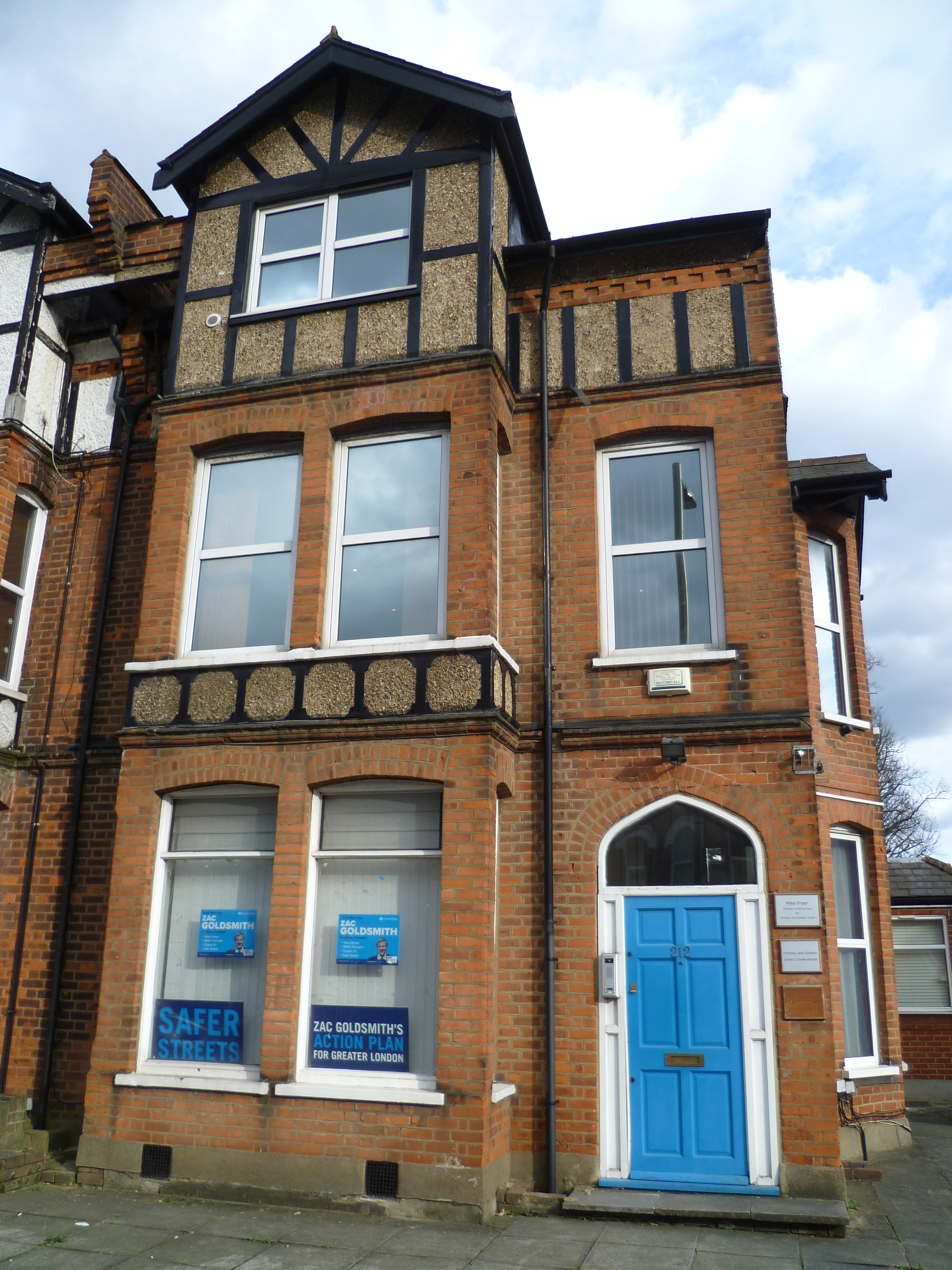 Conservative Party office, Finchley and Golders Green, of Mike Freer and formerly of Margaret Thatcher, London